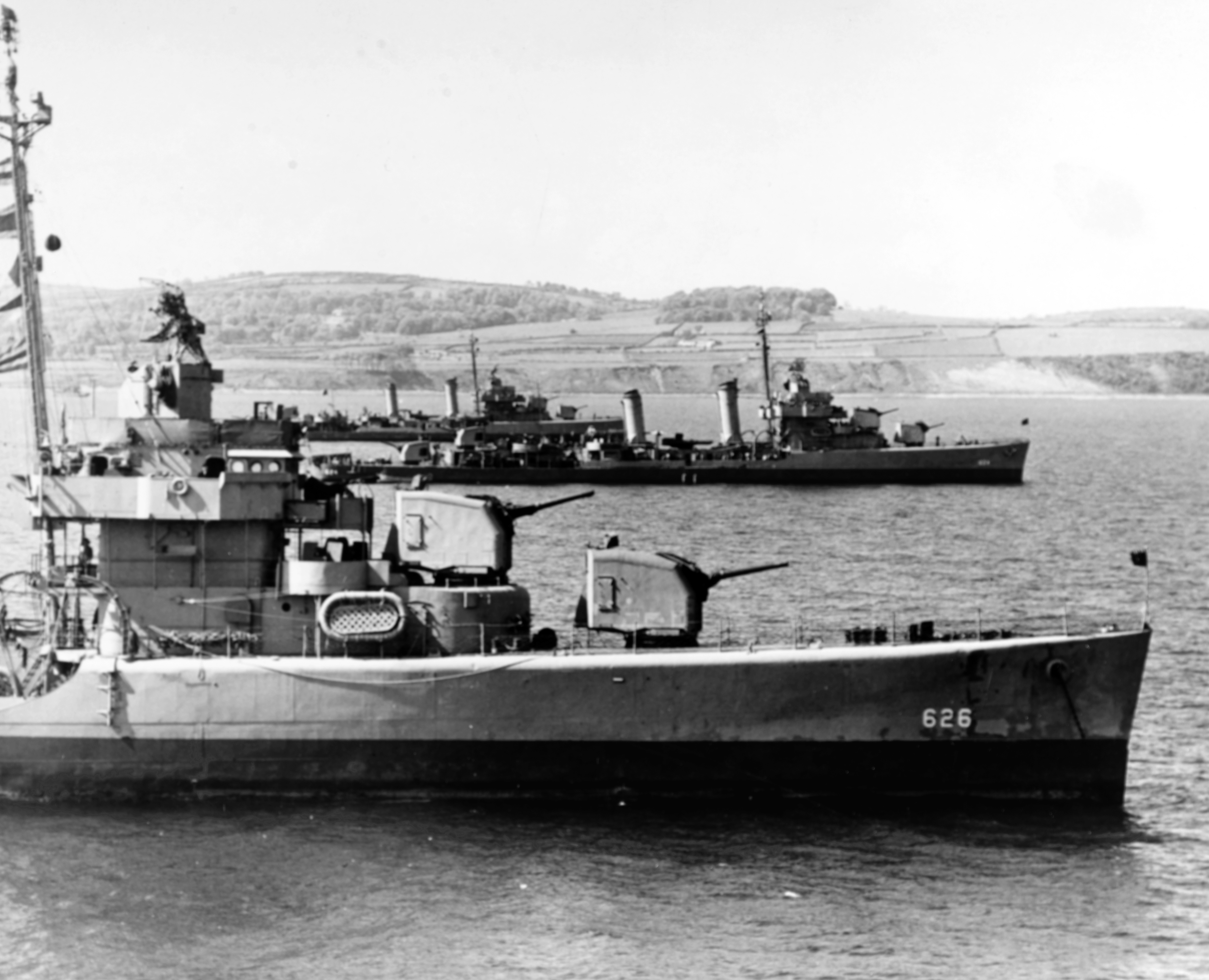 The U.S. Navy destroyer USS Satterlee (DD-626) in Belfast Lough, Northern Ireland, with other destroyers, 14 May 1944, while preparing for the invasion of France. USS Baldwin (DD-624) is in the middle distance, with USS Nelson (DD-623) beyond. The photo was taken from the heavy cruiser USS Quincy (CA-71).